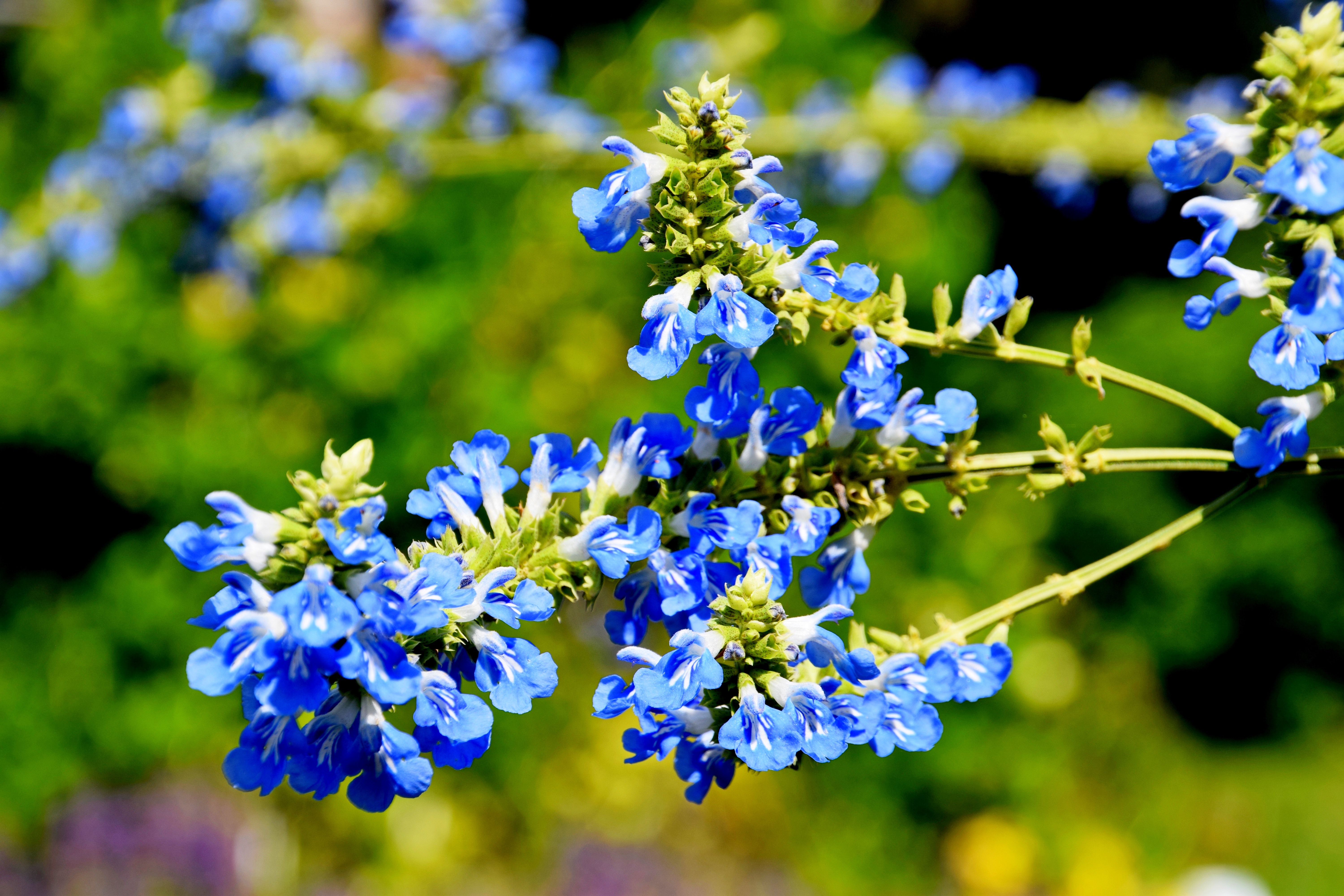 Salvia uliginosa in Jardin des Plantes de Toulouse